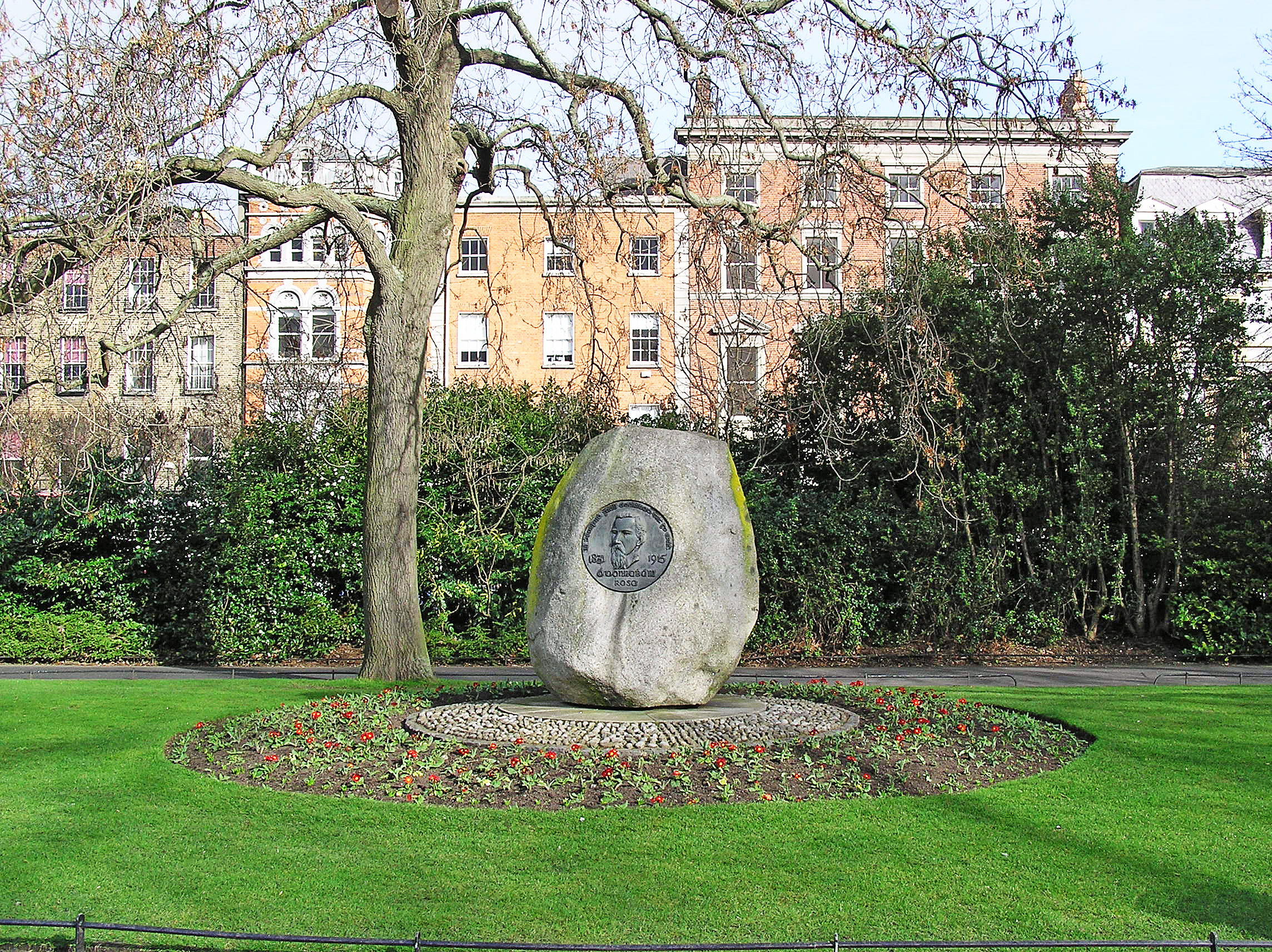 St. Stephens Green Park in Dublin, Ireland